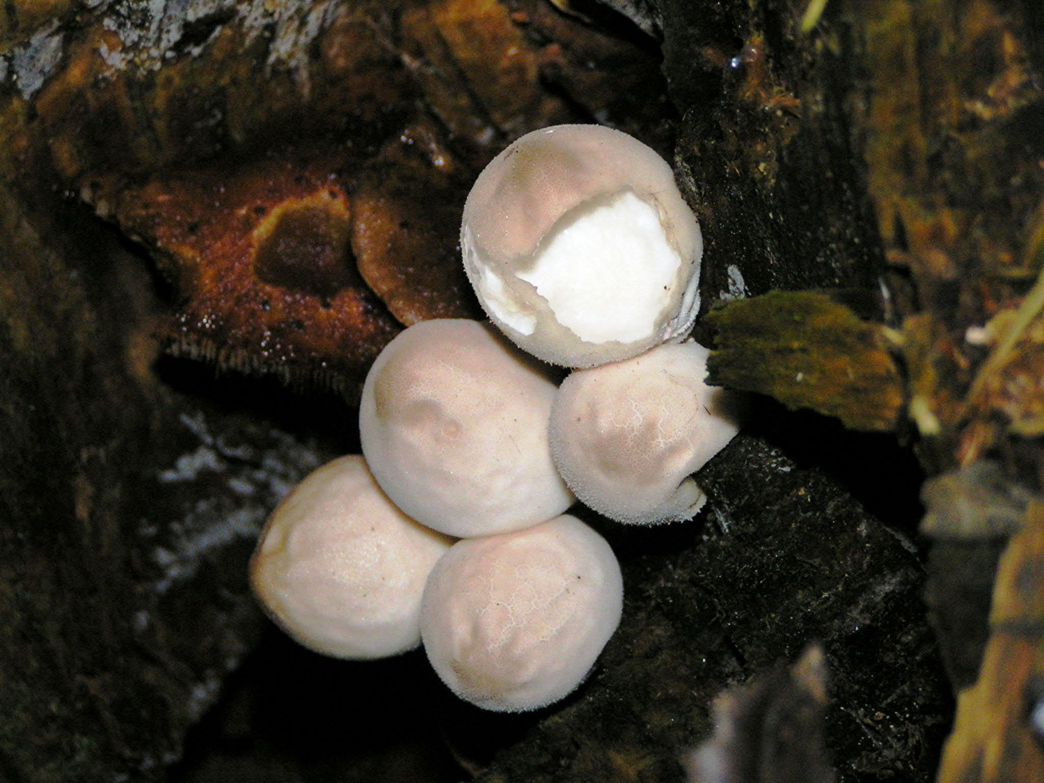 E birefërmege Poufascht.